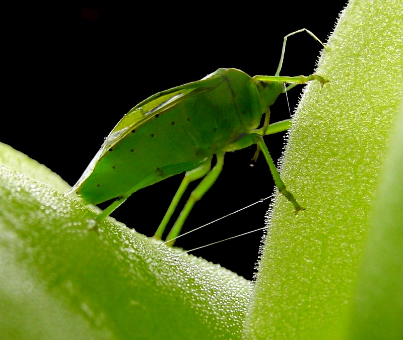 A plant bug on a Pinguicula gigantea. The insect was too large for the plant and ultimately got away.